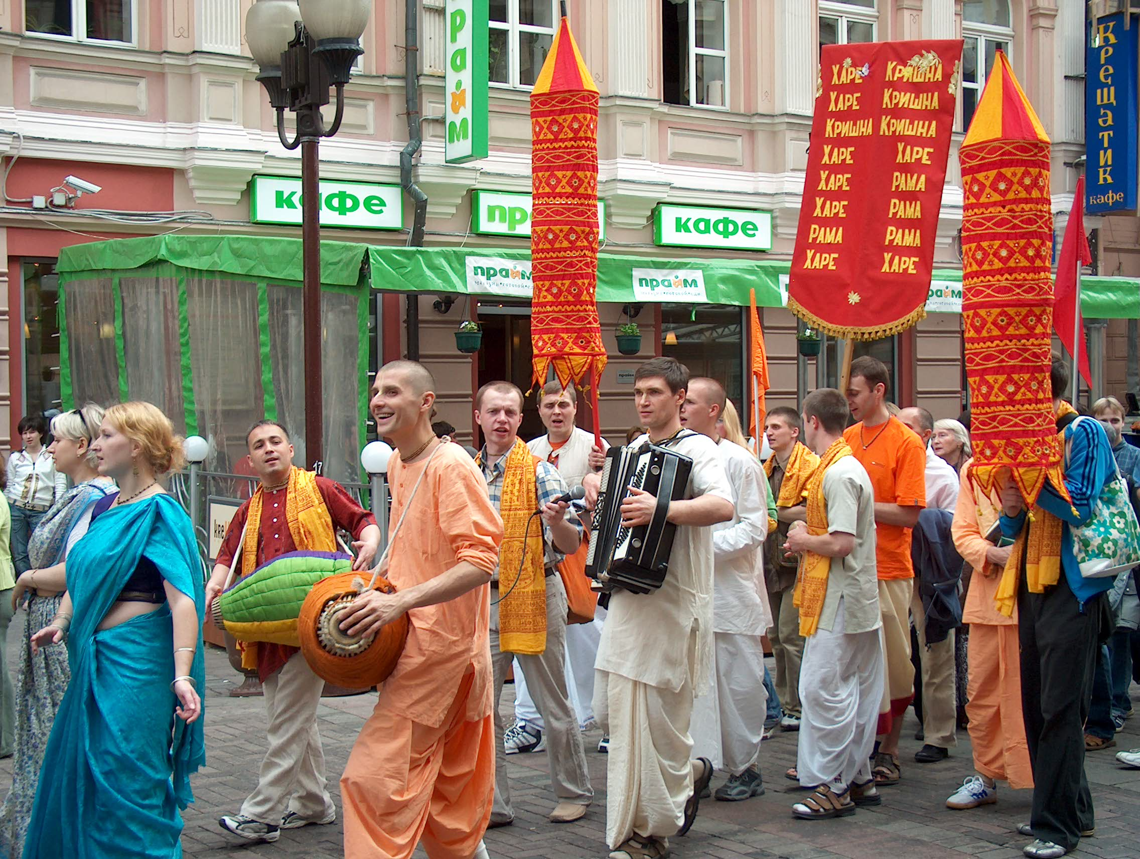 Hare Krishna street show on Arbat Street in Moscow - June 2006